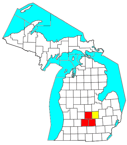 Locator map of the Lansing-East Lansing-Owosso Combined Statistical Area in the central part of the Lower Peninsula of the U.S. state of Michigan. The two components of the CSA are colored separately: Lansing-East Lansing Metropolitan Statistical Area: red Owosso Micropolitan Statistical Area: yellow